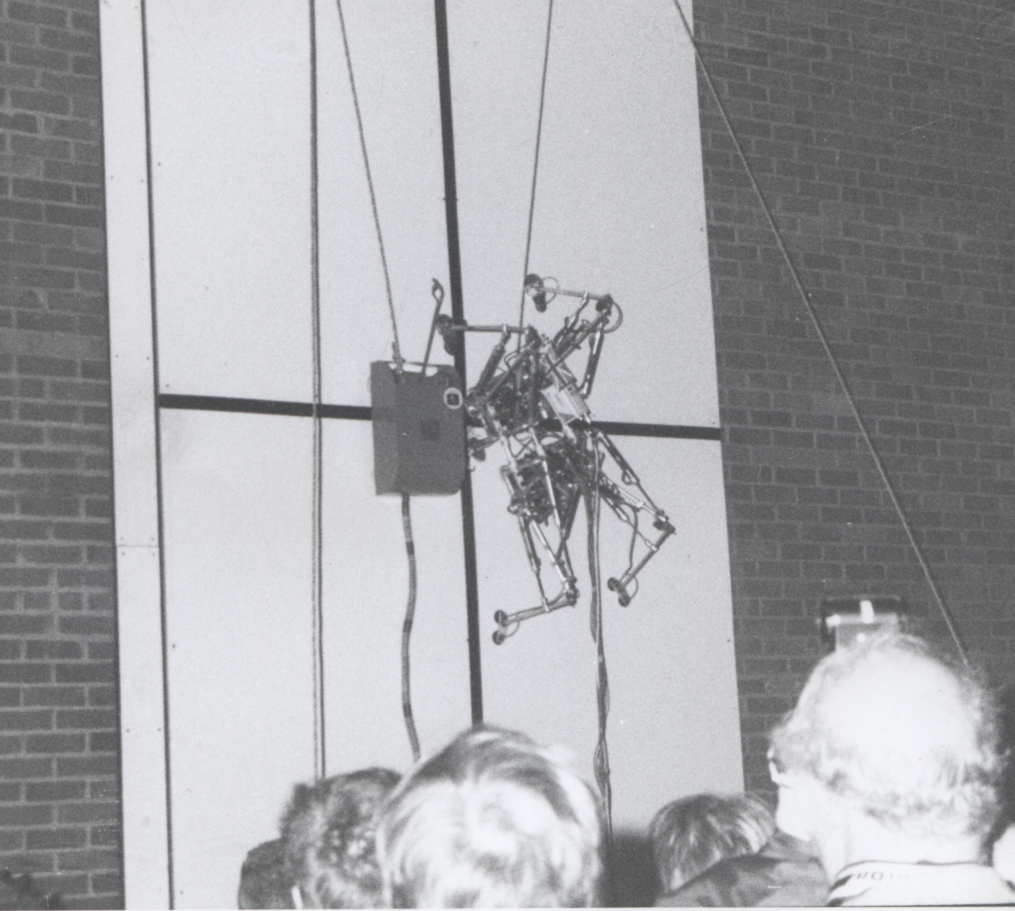 Robot disqualification at the First Robot Olympics in Glasgow